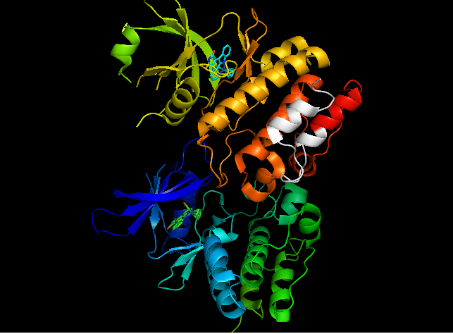 Pymol image with highlighted residues.